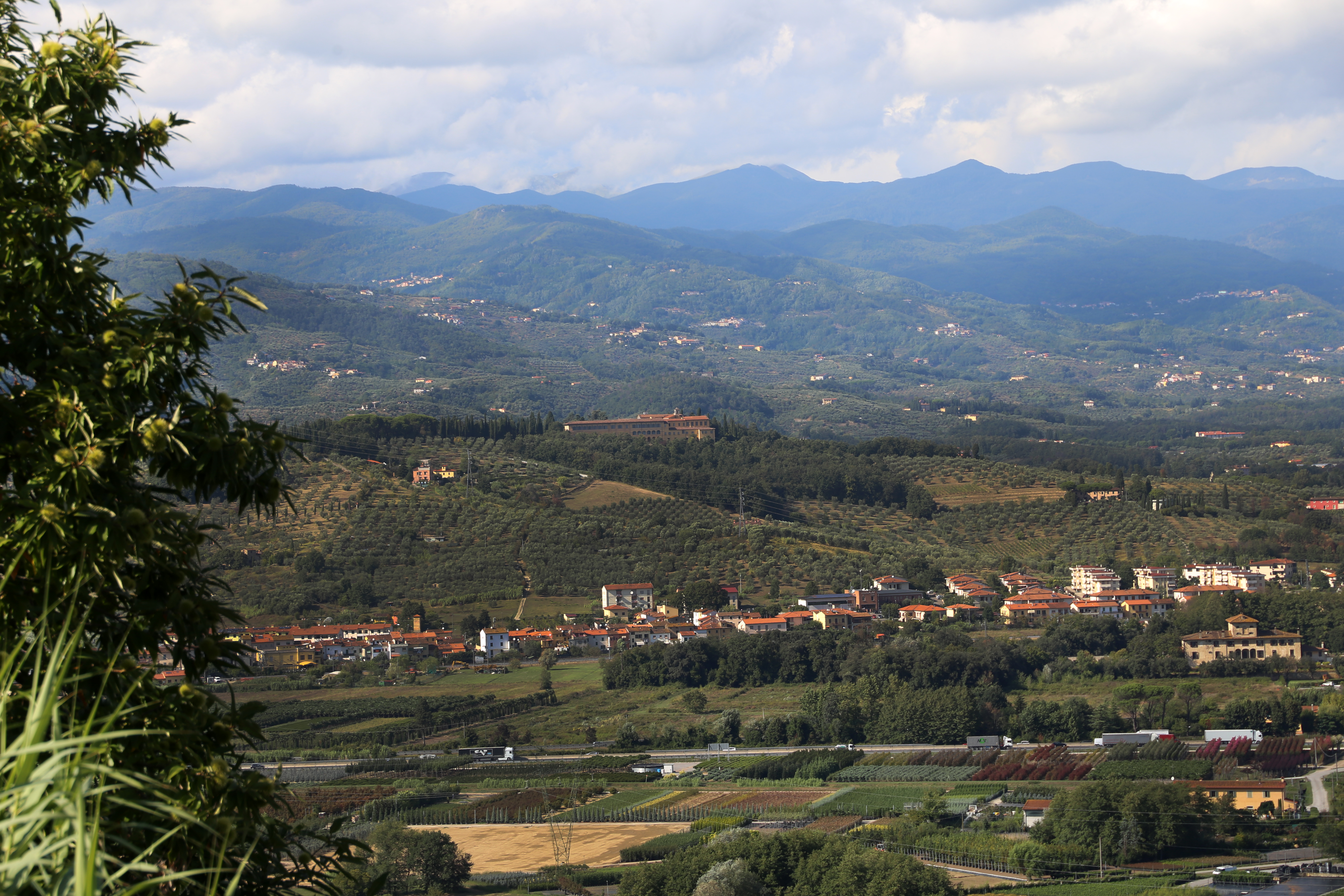 Pistoia, miscellany